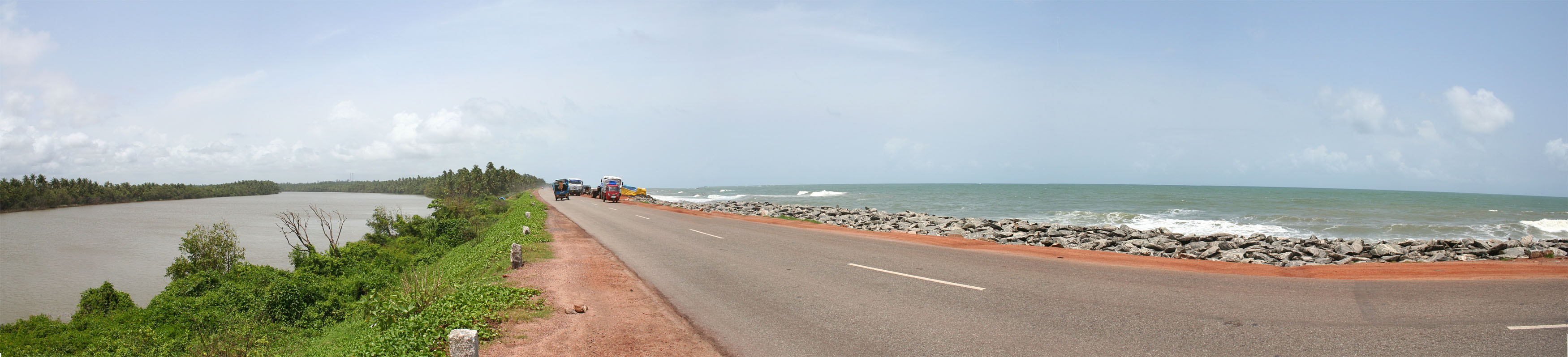 Maravanthe near Byndoor - River on Left, Arabian Sea at Right (NH 66 - old NH 17 in between).